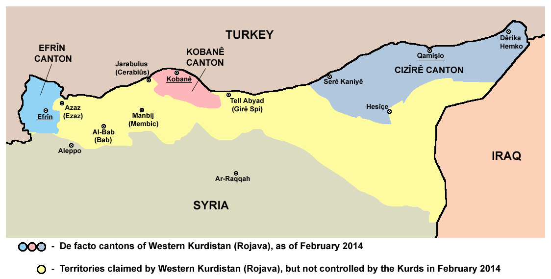 Map showing de facto cantons of Rojava (Western Kurdistan) in February 2014, as well as territories claimed by Rojava (Western Kurdistan), but not controlled by the Kurds in February 2014.